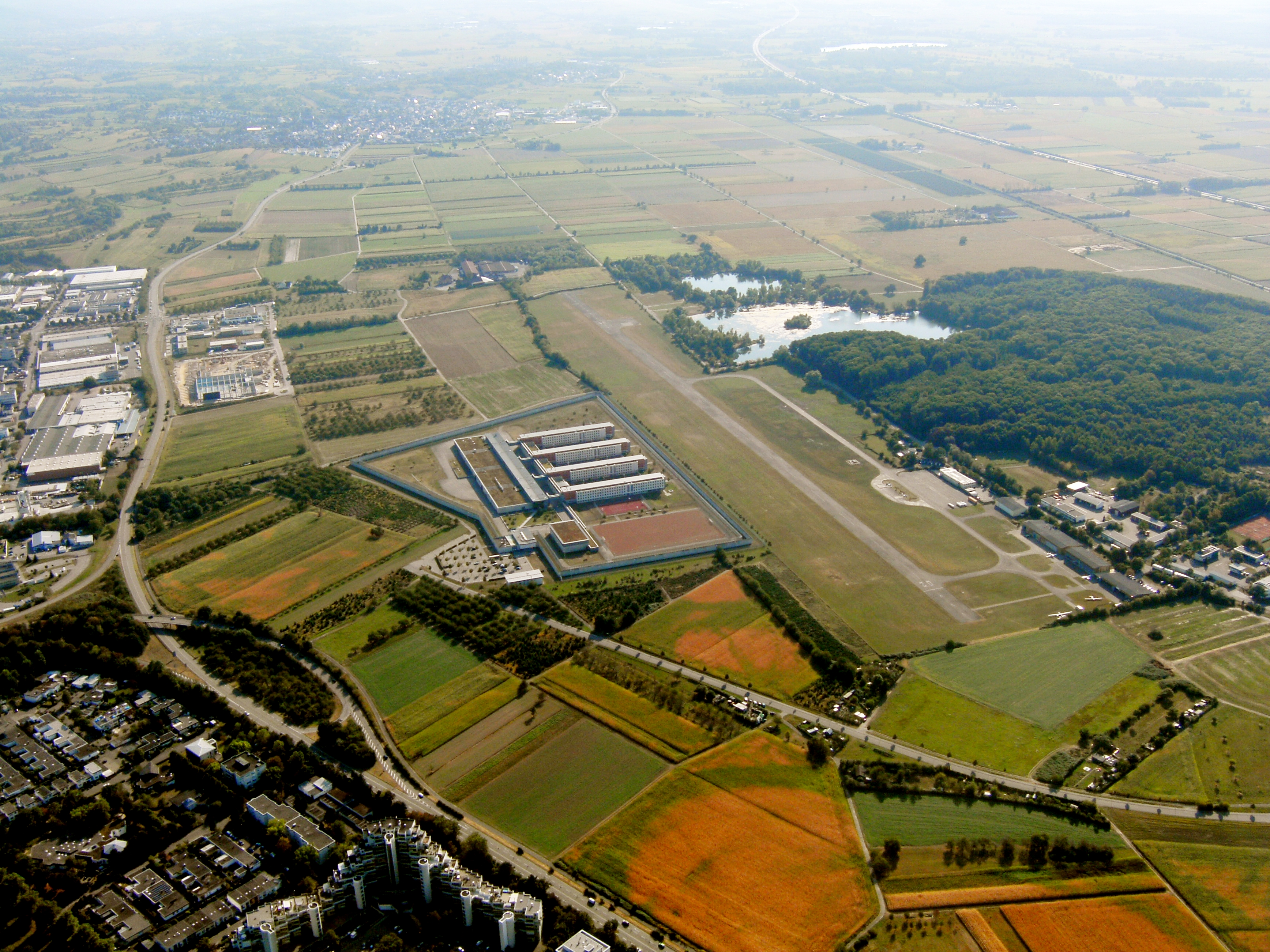 Offenburg airfield (EDTO) in 2016 in the direction of runway 20. The field has been PPR for many years and operations have furthermore been affected by the construction of the prison complex just east of the runway. At the lefthand corner of the picture a part of the Offenburg suburg of Uffhofen can be seen